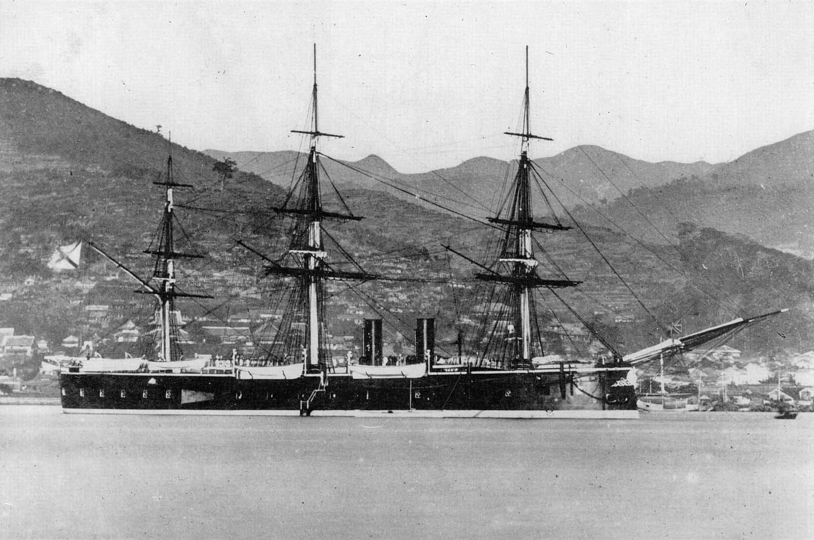 Imperial Russian armoured cruiser Kniaz' Pozharskii.